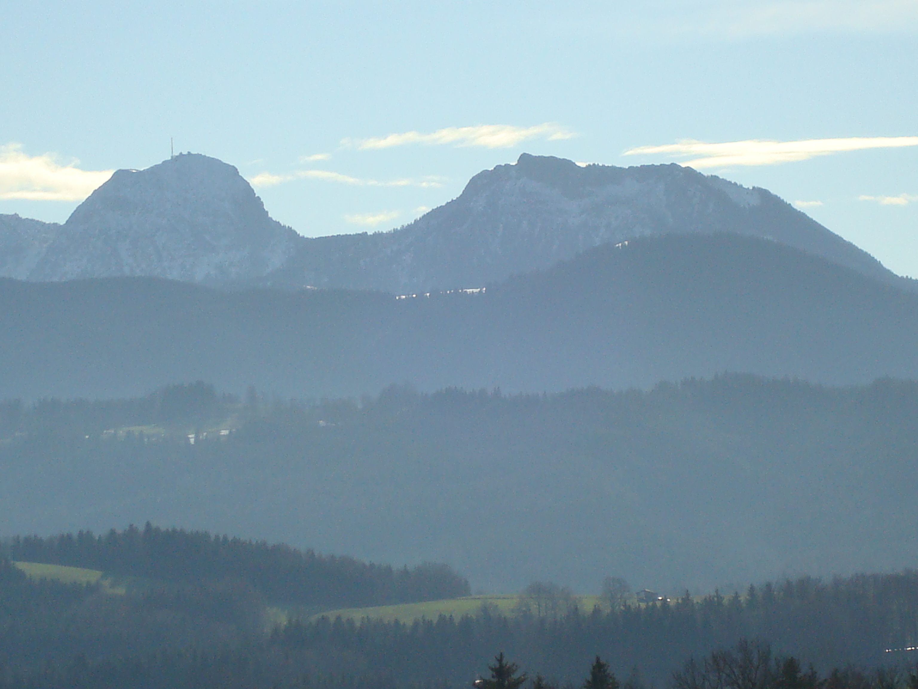 Wendelstein seen from northern direction